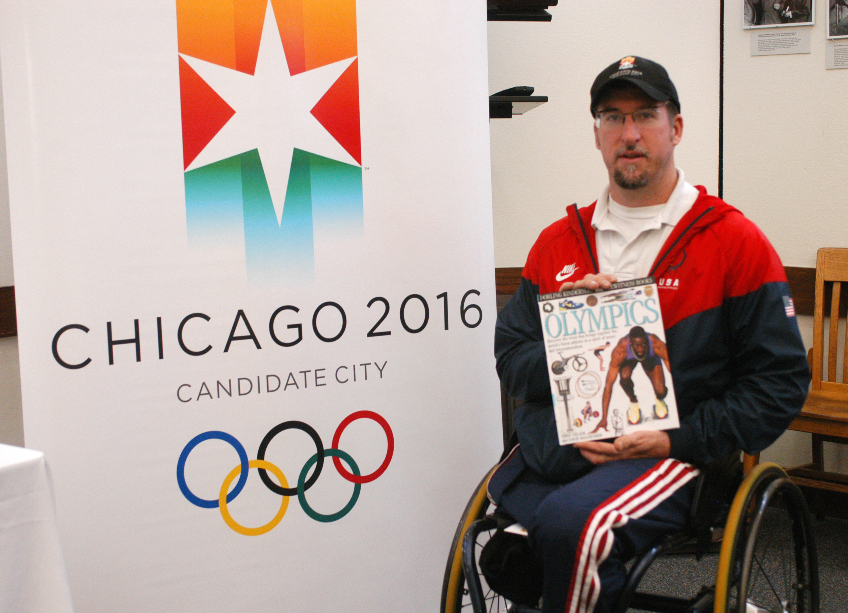 Paralympian Paul Moran at the Hall Branch library